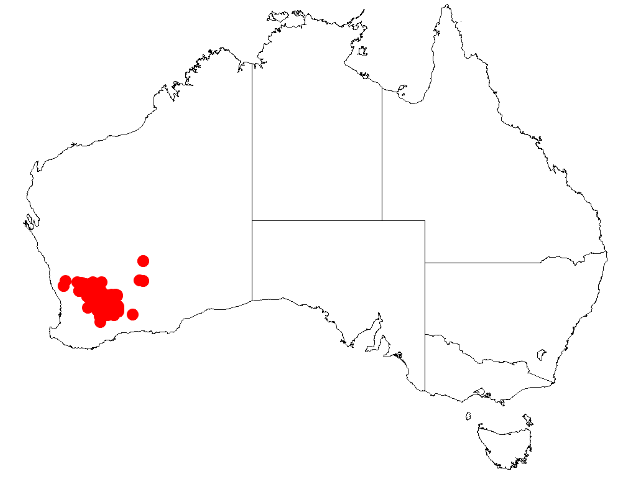 Acacia beauverdiana Occurrence data from Australasia Virtual Herbarium downloaded from on 8 December 2018